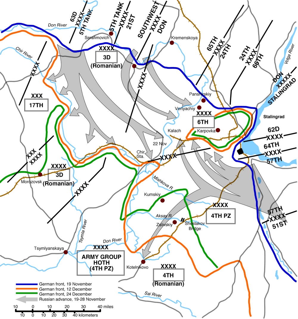 Map of Stalingrad battle German front, 19 November German front, 12 December German front, 24 December Russian advance, 19-28 November